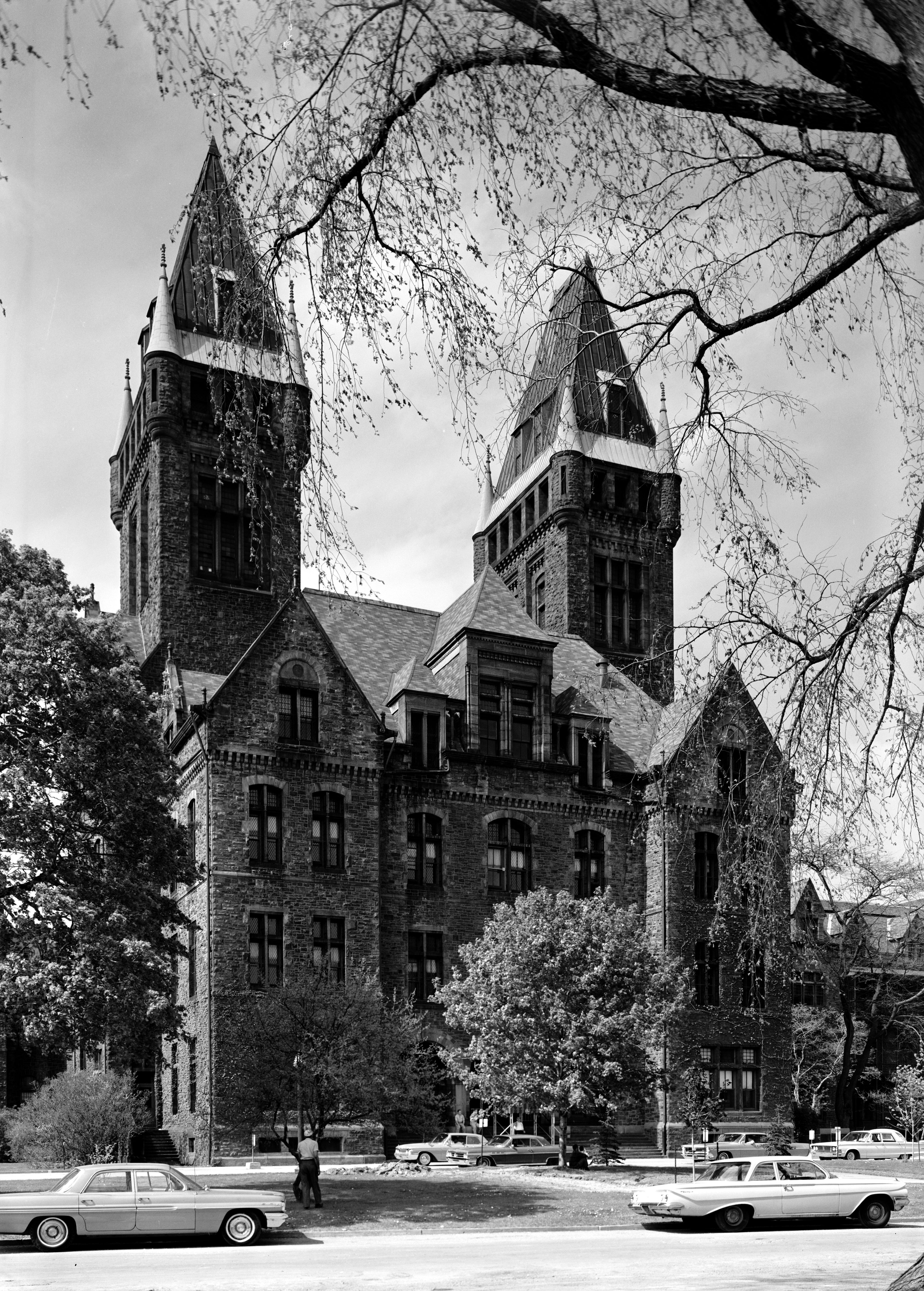 The H.H. Richardson Complex (formerly known as the State Lunatic Asylum, Buffalo State Hospital, etc.), Buffalo, New York.